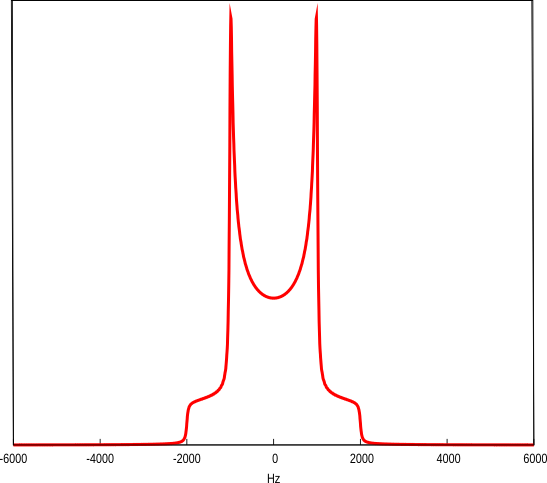 Simulation of 1H-13C with only dipolar interaction using SIMPSON. Shows typical pake doublet. Output as text (-xreim), plotted using gnuplot to get eps output, converted to pdf, imported to Inkscape, exported as png.